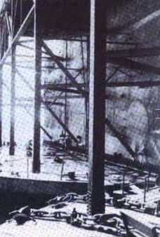 USS ABSD-4 ballast pontoons and moor chain at Seeadler Harbor at Admiralty Islands during Wolrd War 2